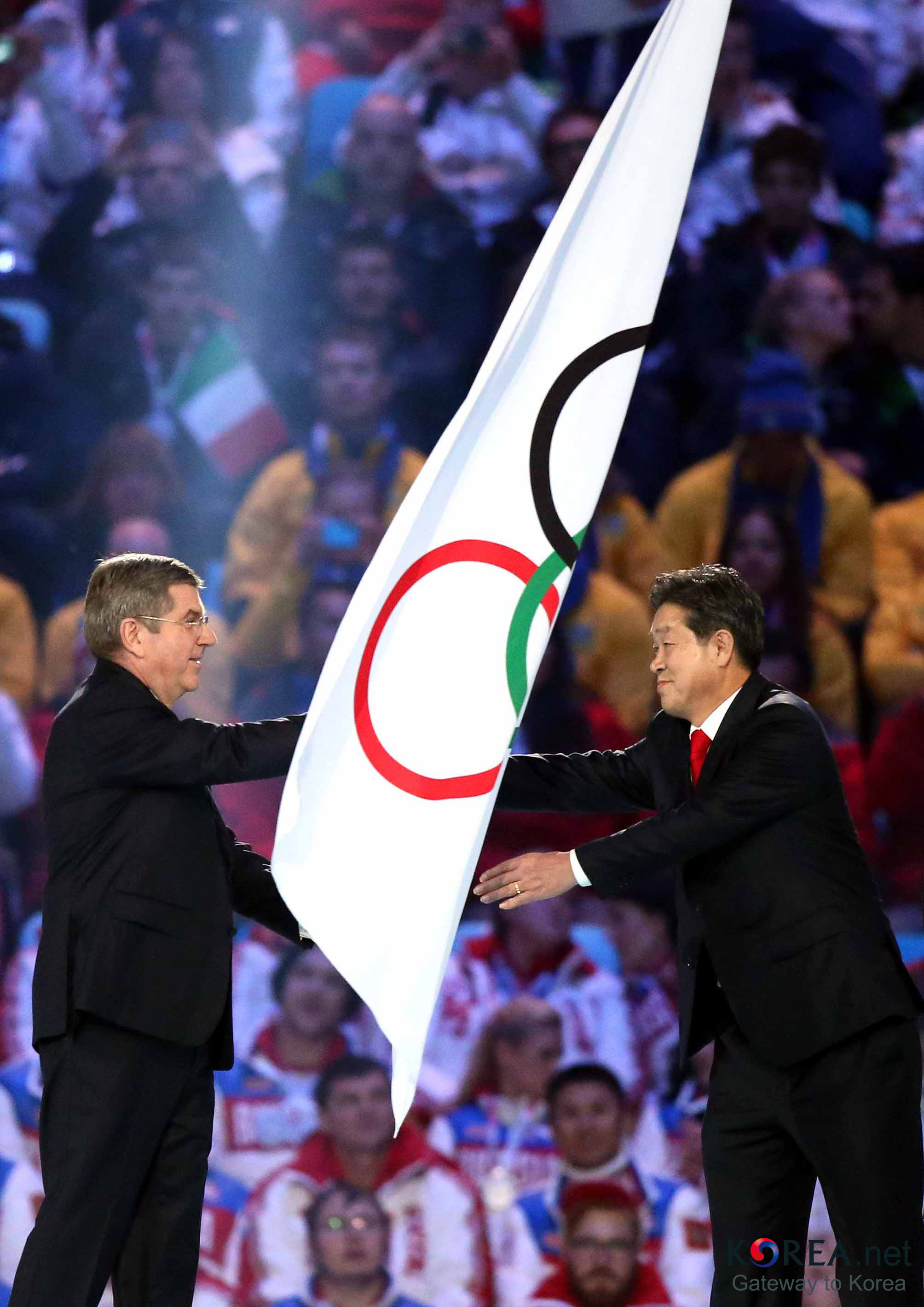 The Closing Ceremony of The Sochi 2014 Winter Olympic Games